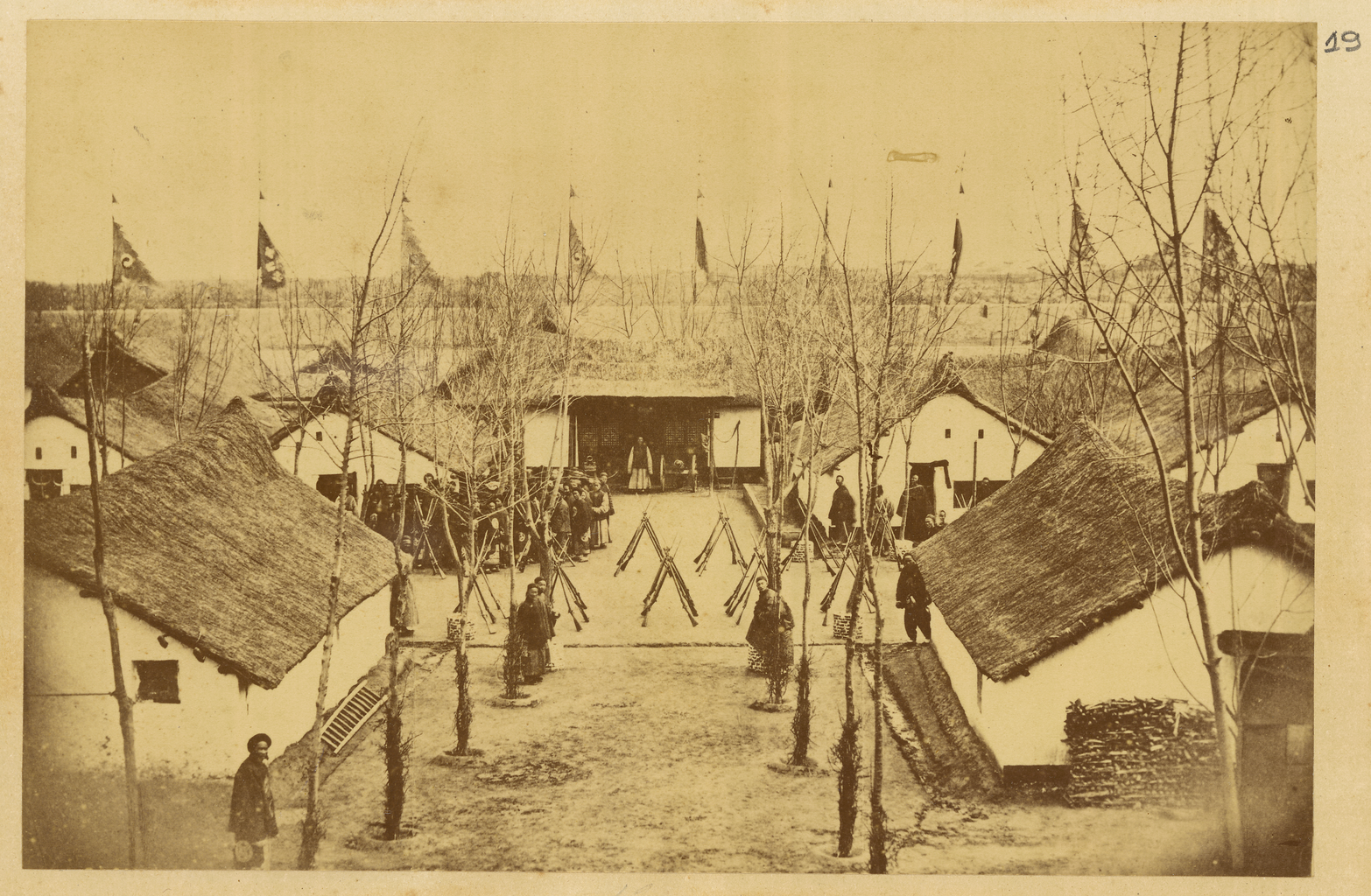 In 1874-75, the Russian government sent a research and trading mission to China to seek out new overland routes to the Chinese market, report on prospects for increased commerce and locations for consulates and factories, and gather information about the Dungan Revolt then raging in parts of western China. Led by Lieutenant Colonel Iulian A. Sosnovskii of the army General Staff, the nine-man mission included a topographer, Captain Matusovskii; a scientific officer, Dr. Pavel Iakovlevich Piasetskii; Chinese and Russian interpreters; three non-commissioned Cossack soldiers; and the mission photographer, Adolf Erazmovich Boiarskii. The mission proceeded from Saint Petersburg to Shanghai via Ulan Bator (Mongolia), Beijing, and Tianjin, and then followed a route along the Yangtze River, along the Great Silk Road through the Hami oasis, to Lake Zaysan, back to Russia. Boiarskii took some 200 photographs, which constitute a unique resource for the study of China in this period. Most of the photographs are included in this album, which later became part of the Thereza Christina Maria Collection assembled by Emperor Pedro II of Brazil and given by him to the National Library of Brazil. Flags; Forts and fortifications; Memory of the World; Soldiers; Weapons